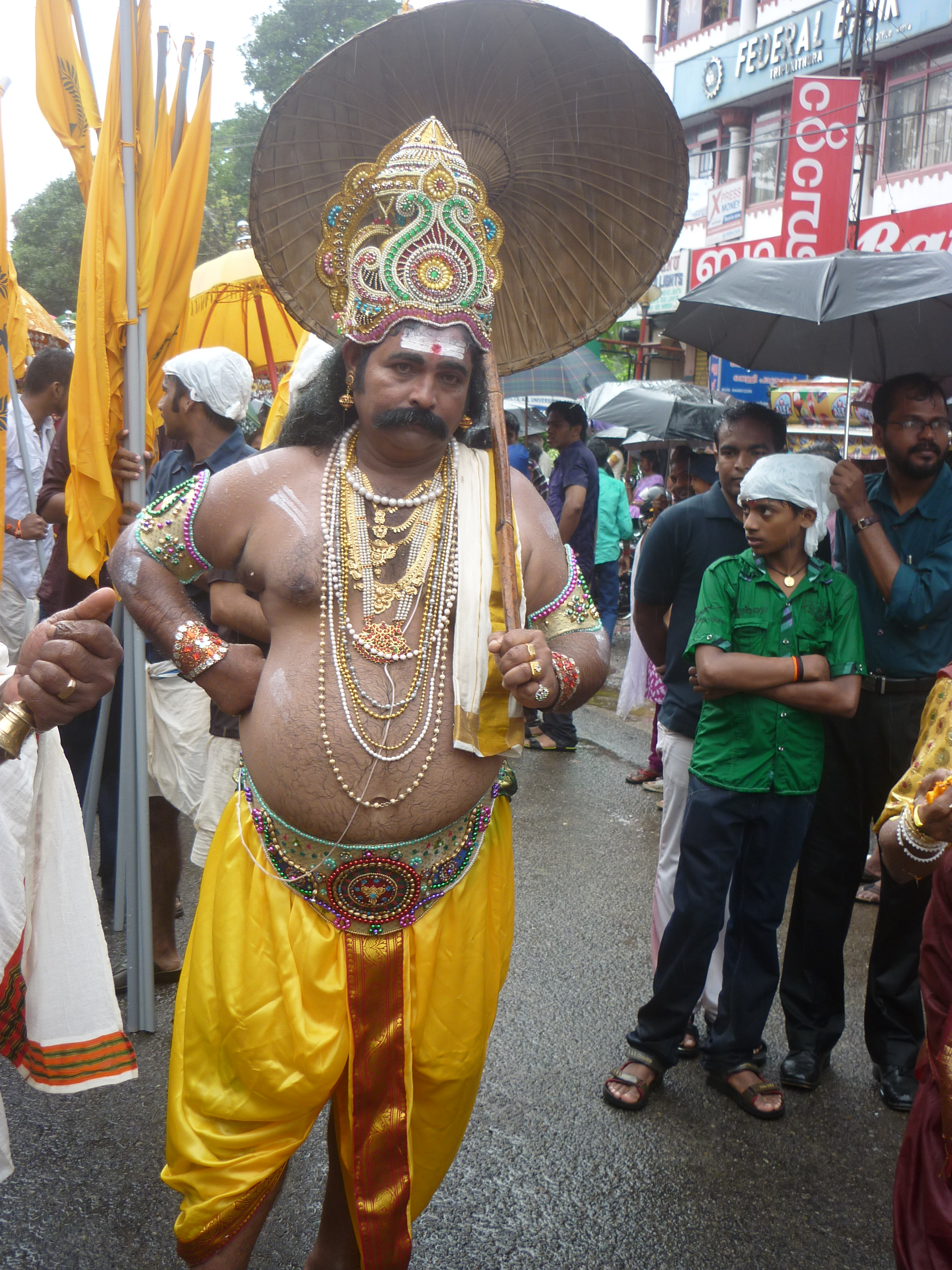 Onam festival is in memory of Maveli.